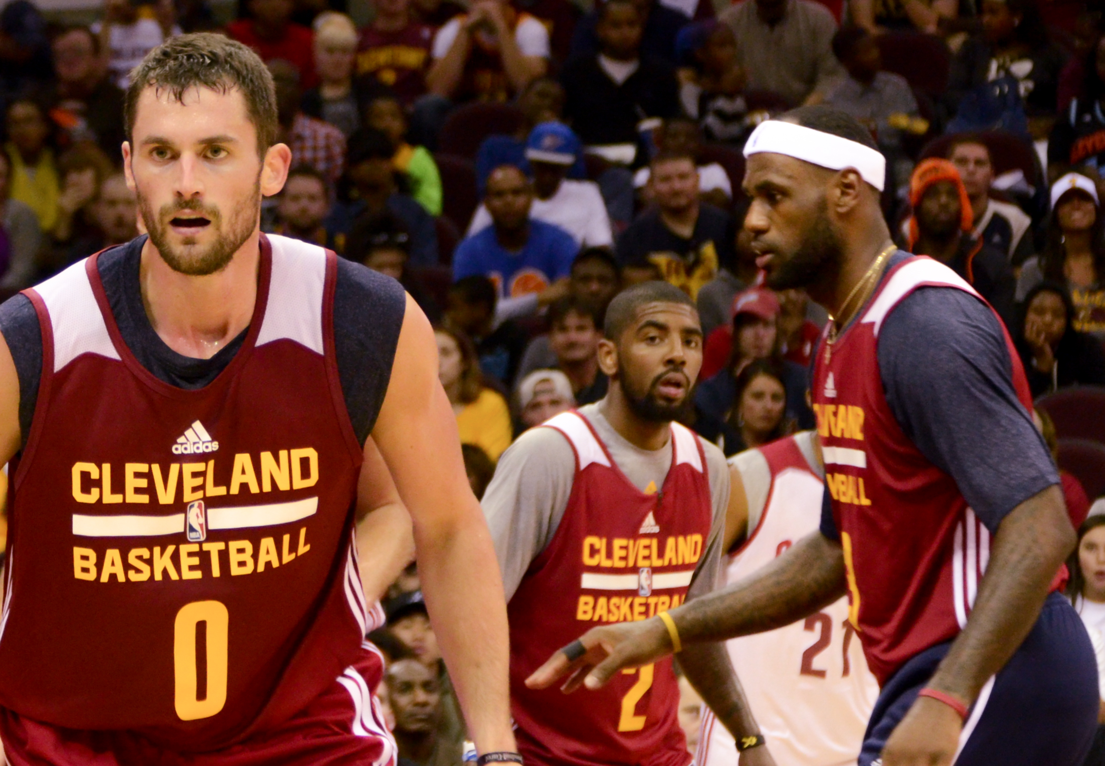 Kevin Love, Kyrie Irving, and LeBron James during the 2014 Wine and Gold Scrimmage.